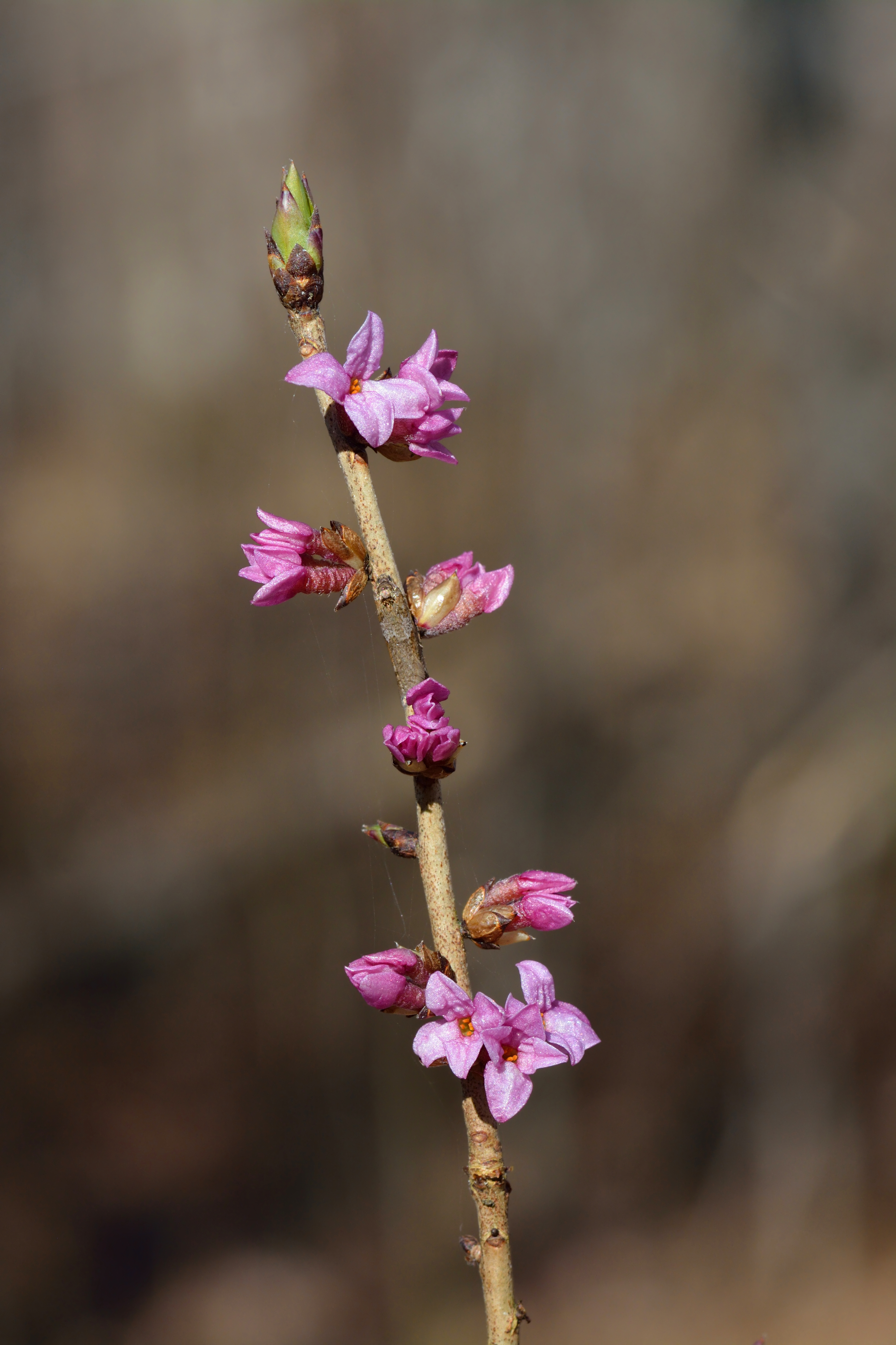 Mezereon (Daphne mezereum) - alvar forest, Keila, Estonia.